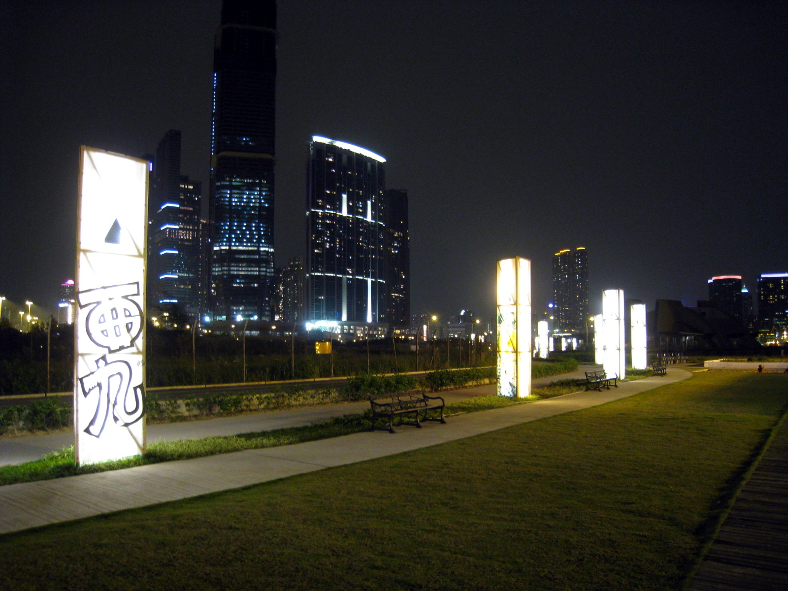 西九龍海濱長廊 West Kowloon Waterfront Promenade